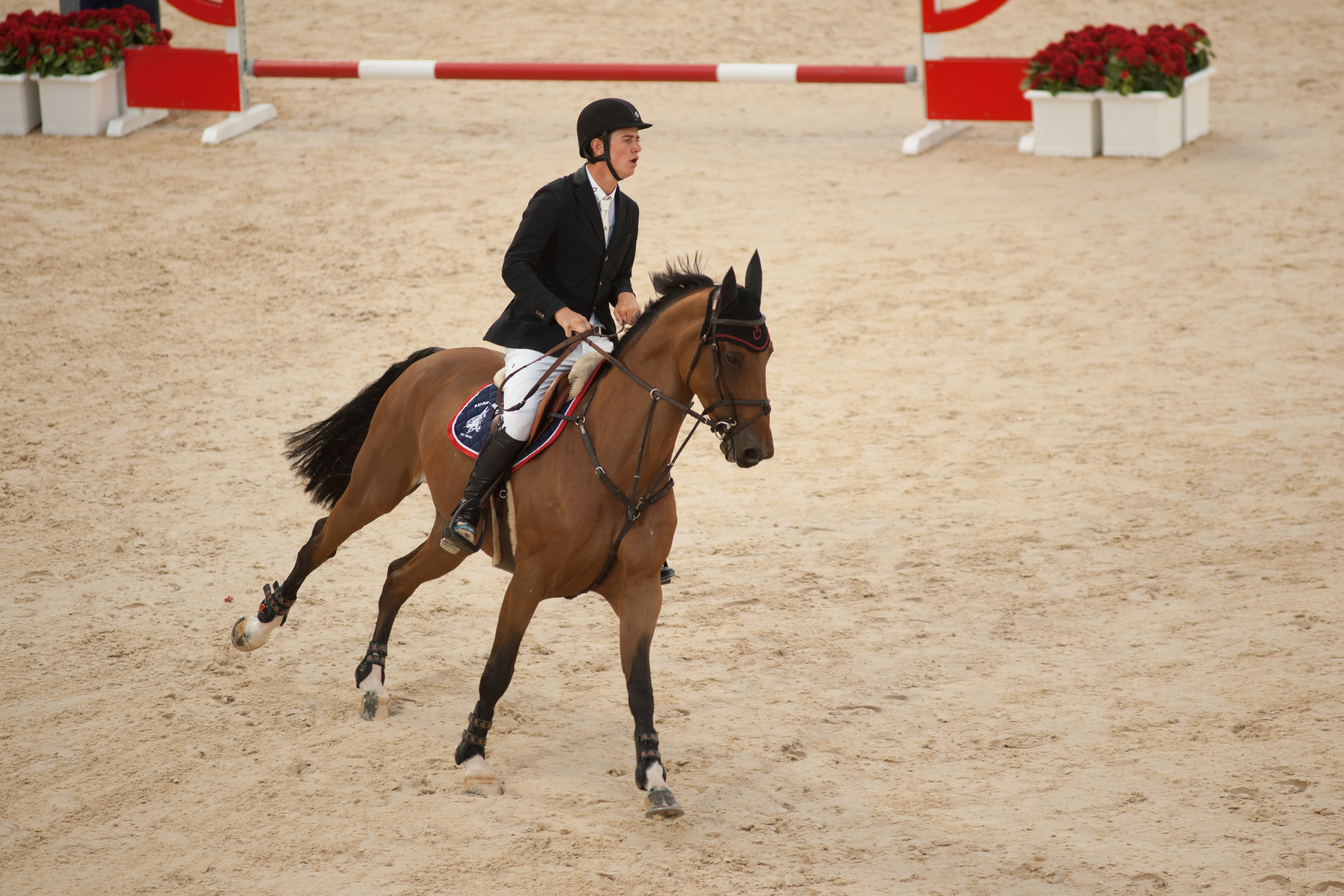 The making of this document was supported by Wikimedia CH. (Submit your project!) For all the files concerned, please see the category Supported by Wikimedia CH. 2013 Longines Global Champions Tour